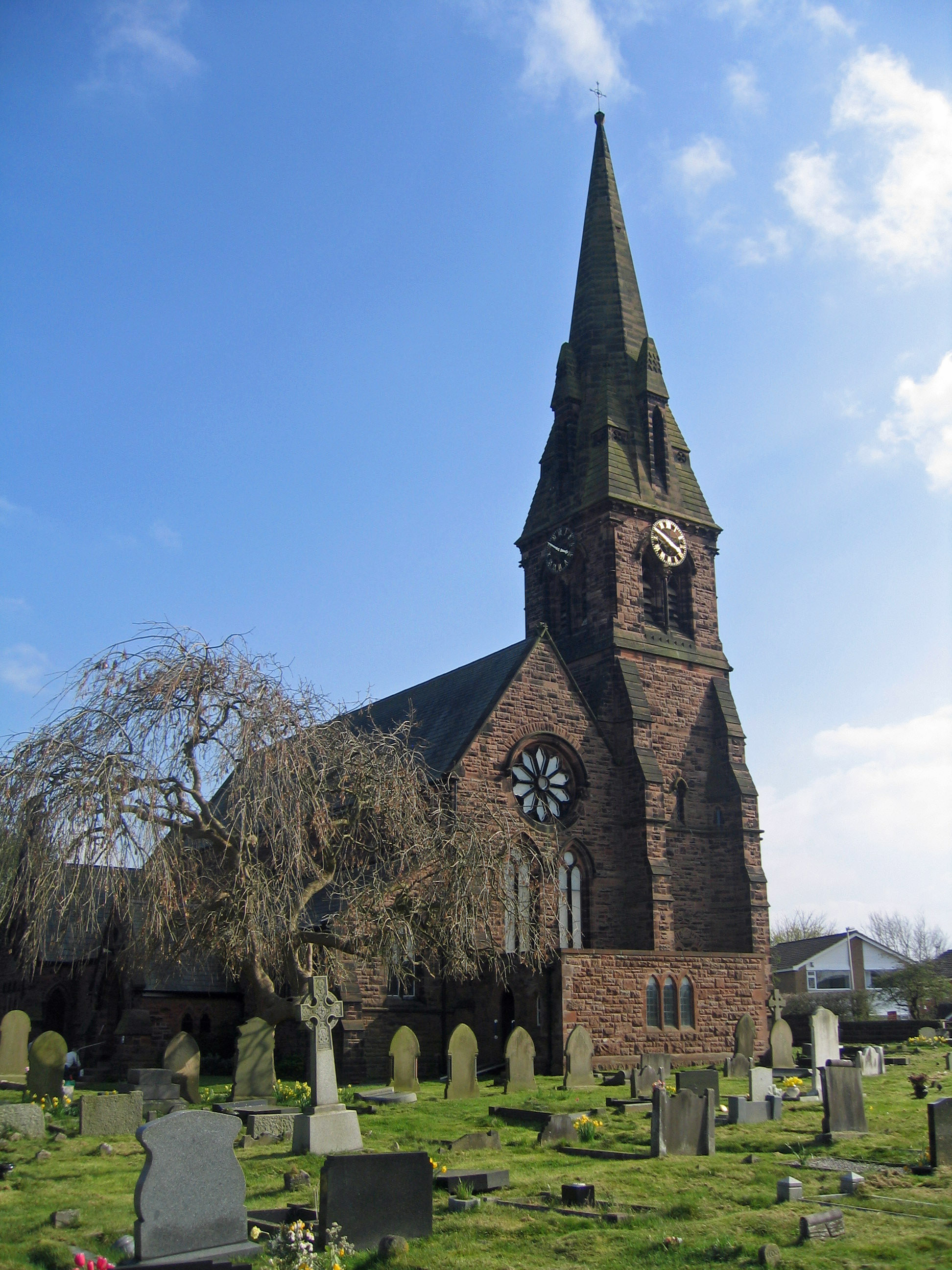 Parish church of St John the Evangelist, Winsford, Cheshire, seen from the northeast